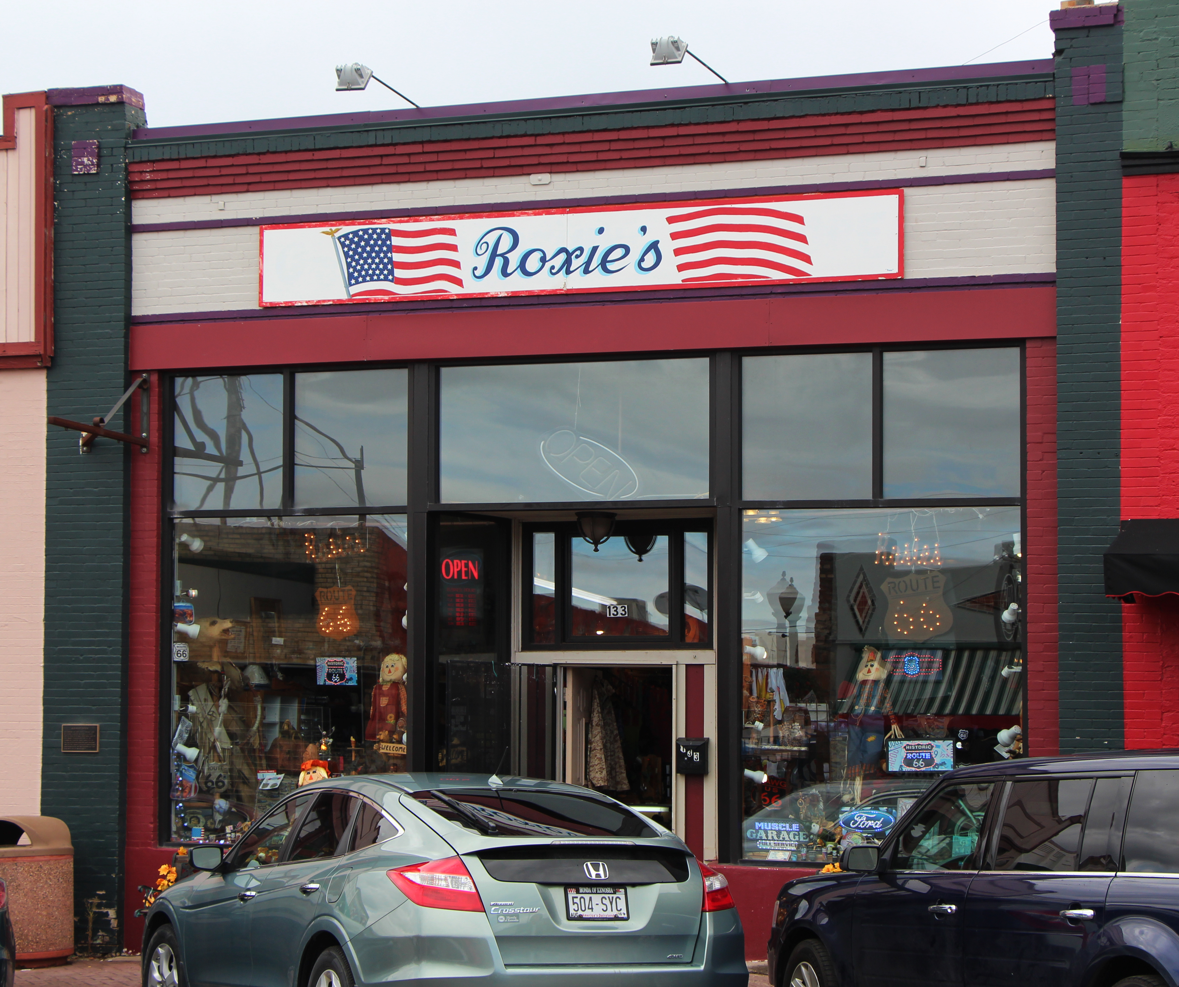 Old Post Office, 132 W. Route 66, Williams, AZ